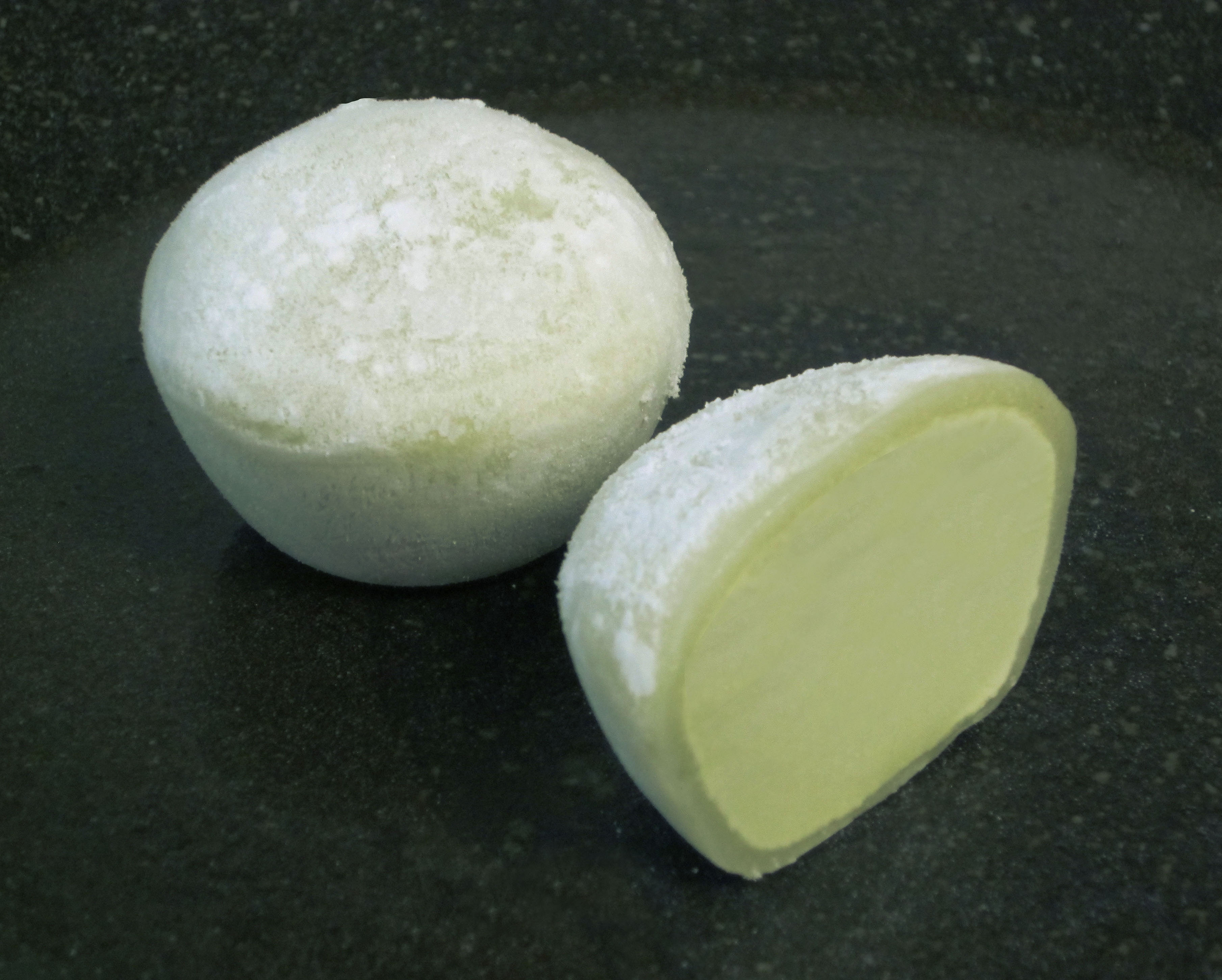 Mochi Ice Cream Sample